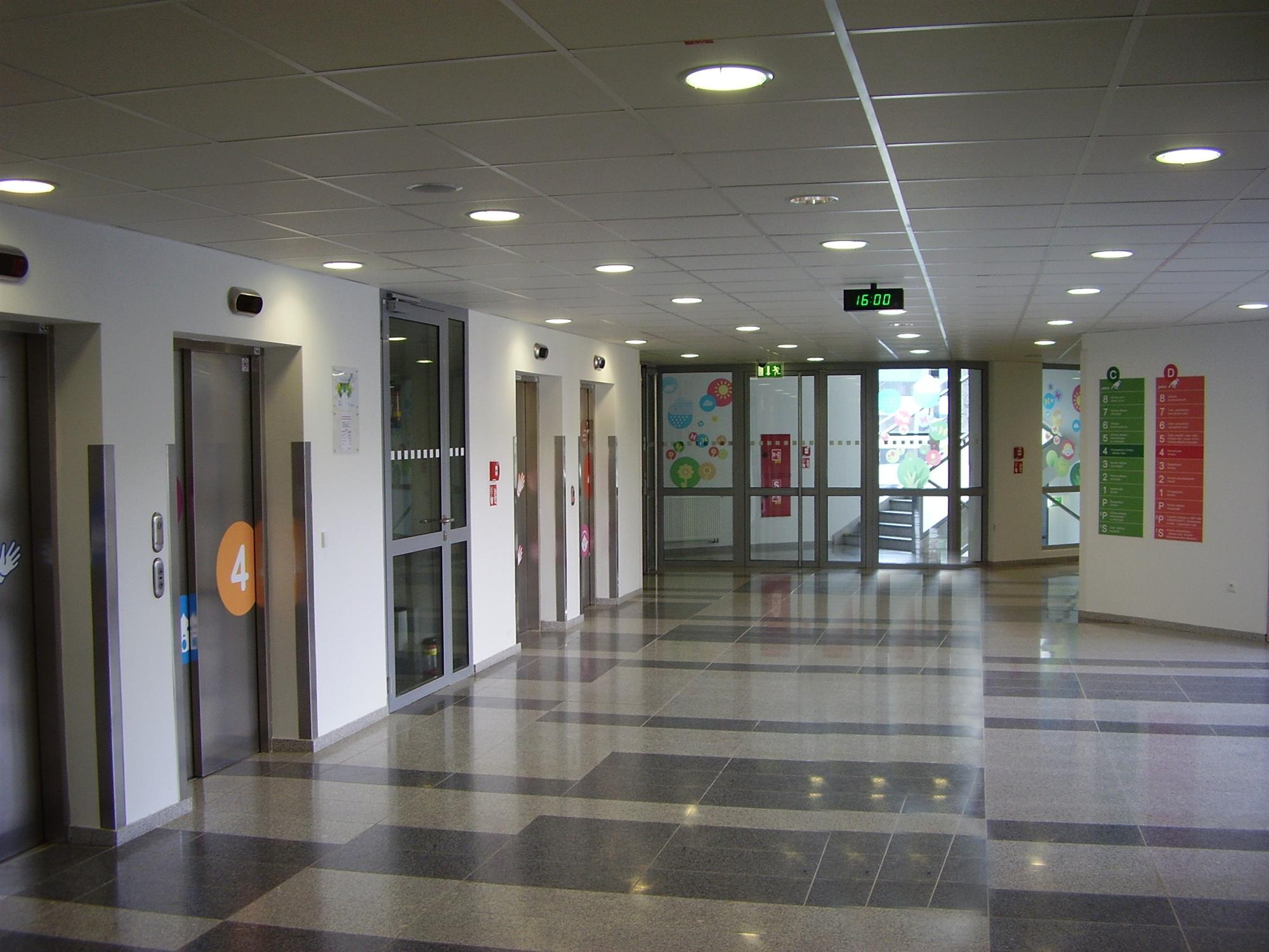 4. floor of children's Motol hospital